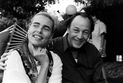 Frederic Forrest and Margaux Hemingway during a break on the set of Double Obsession